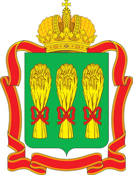 The Coat of Arms of Penza Oblast